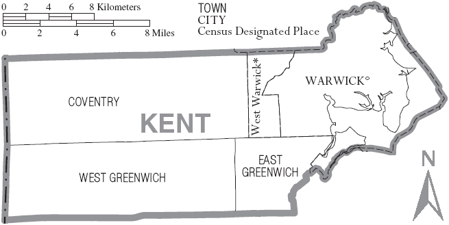 Map of Kent County, Rhode Island, United States with township and municipal boundaries